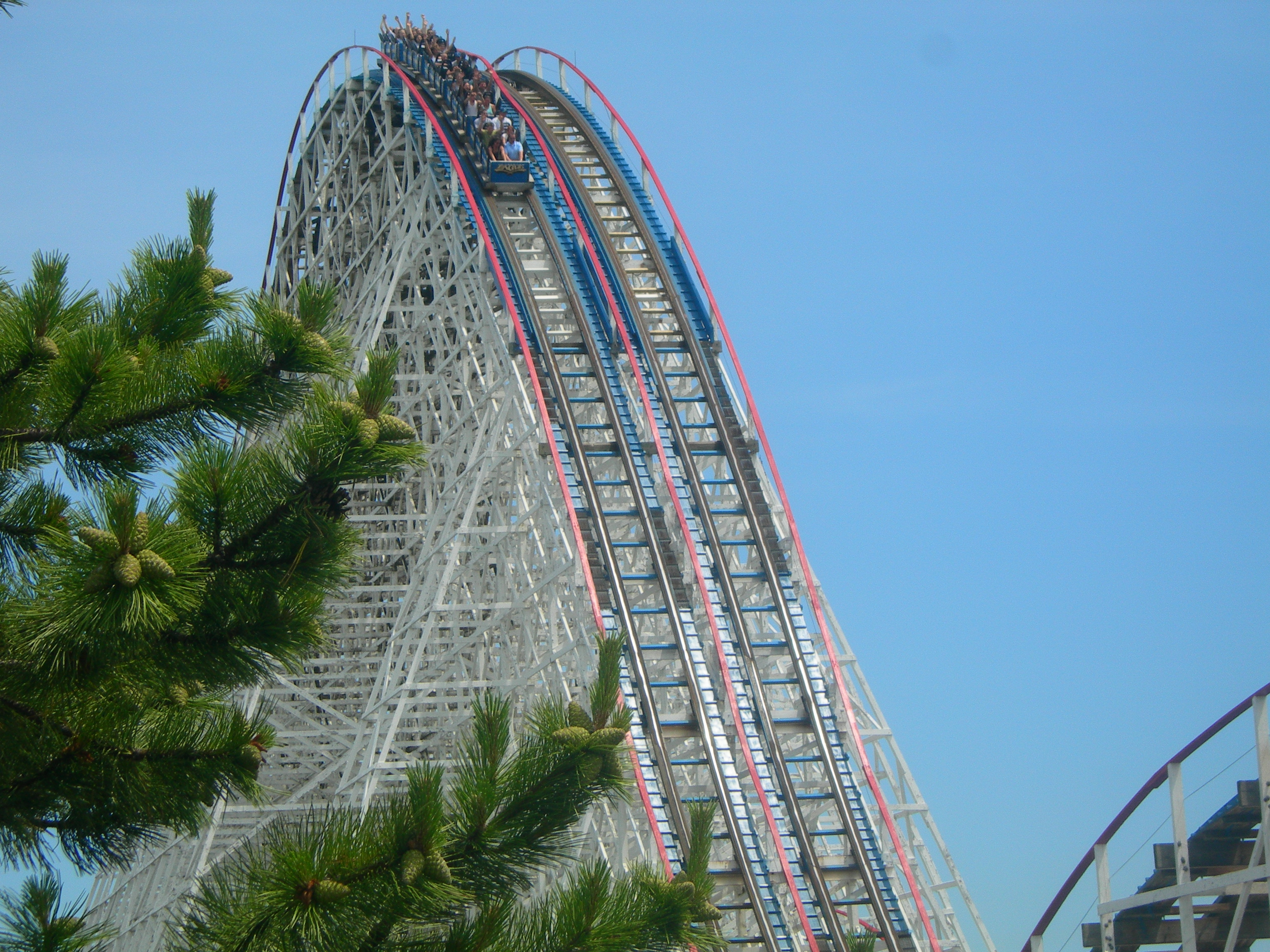 American Eagle (roller coaster) , montagnes russes à Six Flags Great America